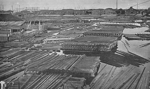 Kiba Lumberyard in 1933